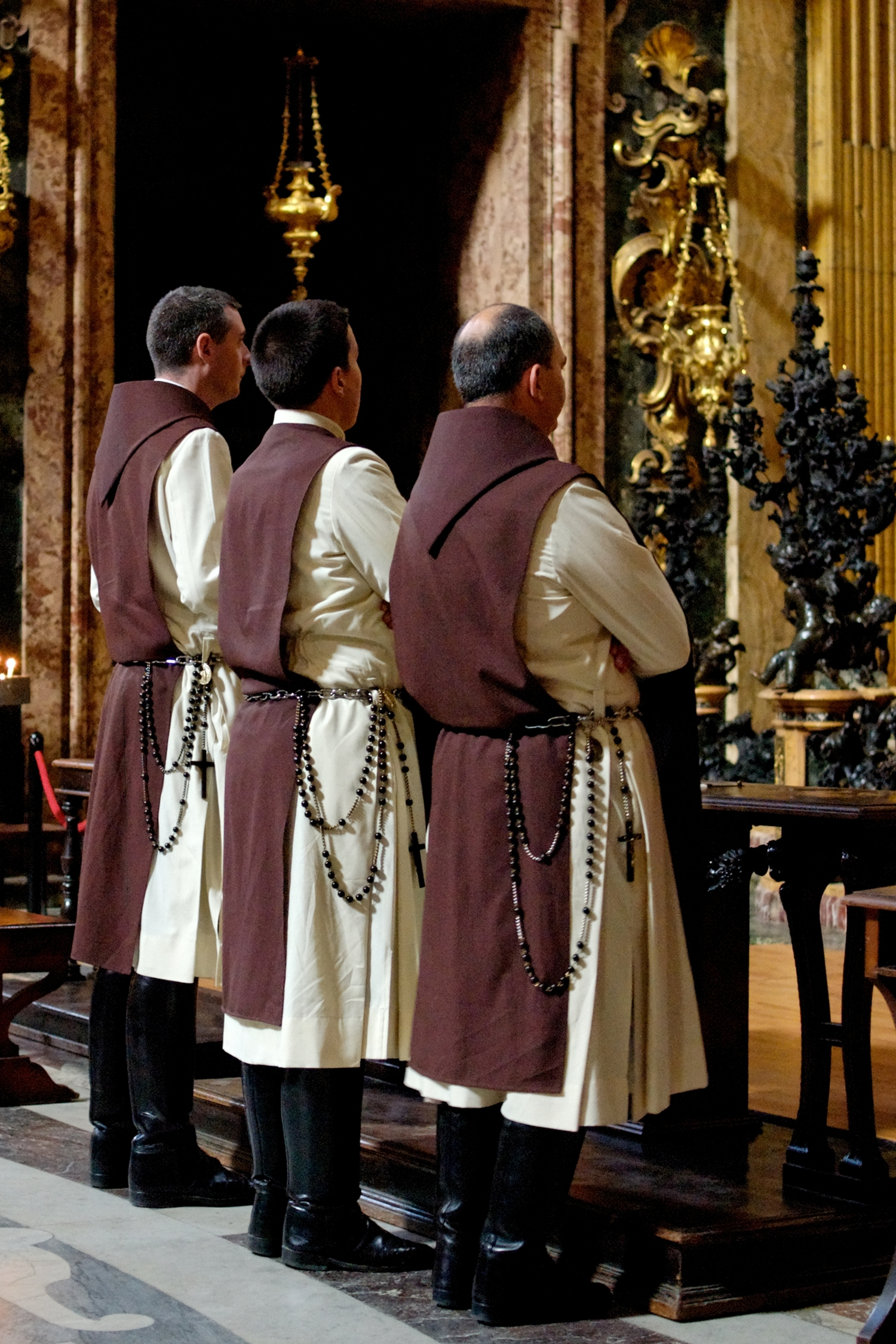 Three Heralds of the Gospel praying in front of the altar of St. Francis Xavier in the church of the Gesù, Rome.